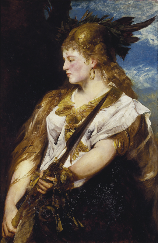 The Valkyrie